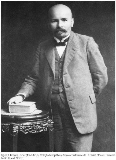 Photo portrait of Jacques Huber (1867-1914), Swiss-Brazilian botanist